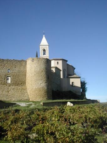 Cairanne_Ramparts, Vaucluse, France